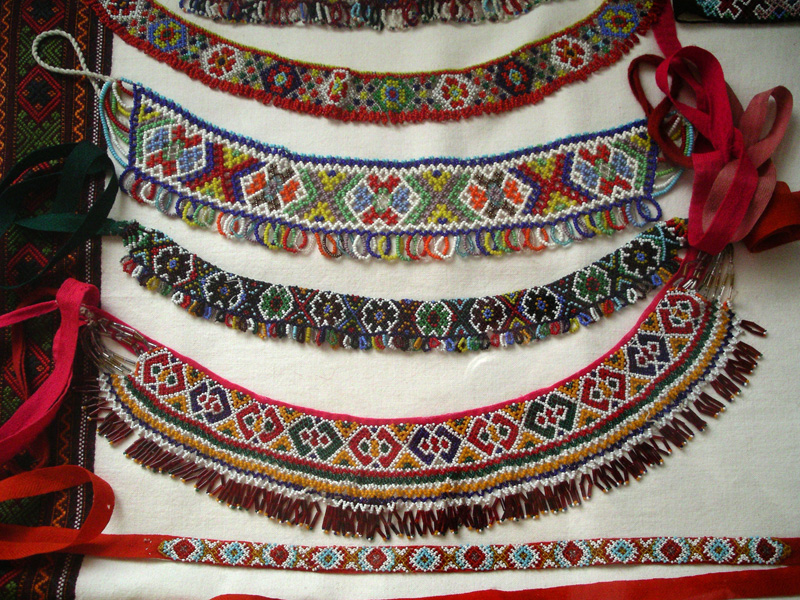 Gerdan - traditional Ukrainian jewellery, part of the national costume. Photo of Gerdans from collection of Museum of folk art of Hutsul’shchyna and Pokuttya in Kolomyia (Коломийський музей народного мистецтва Гуцульщини і Покуття ім. Йосафата Кобринського)